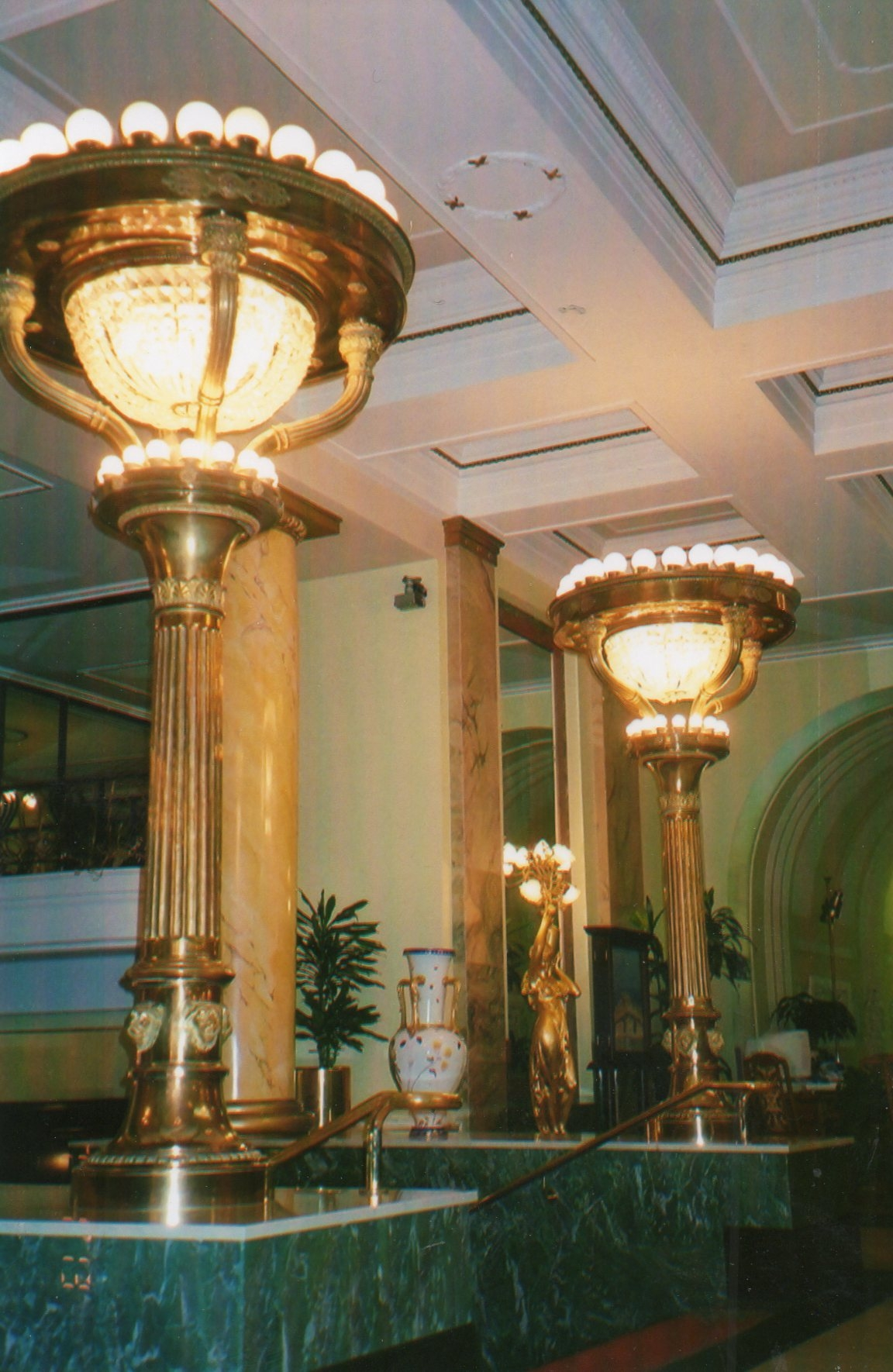 Hotel Metropol, Moscow, interior